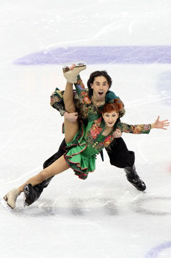 Jana KHOKHLOVA and Sergei NOVITSKI at the Olympics 2010